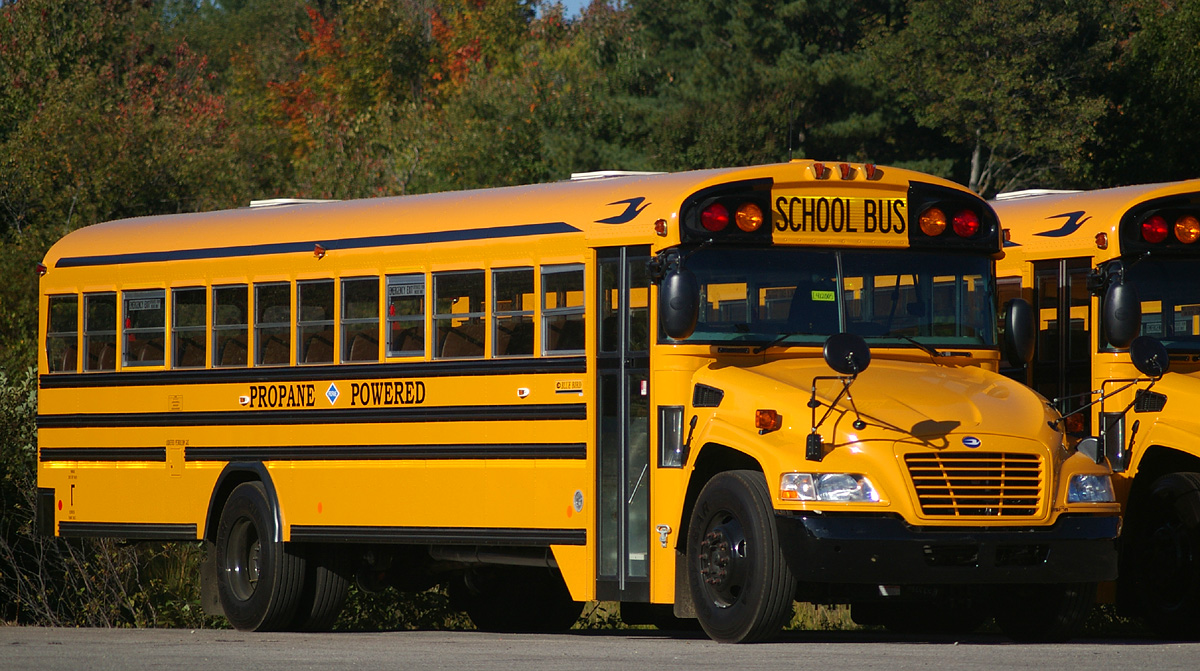 A Blue Bird Vision school bus with a propane-fueled engine, located in Portland, Maine.